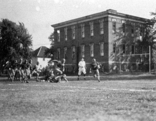 Bowling Green State football team playing a game at the Ridge Street School field in 1921.